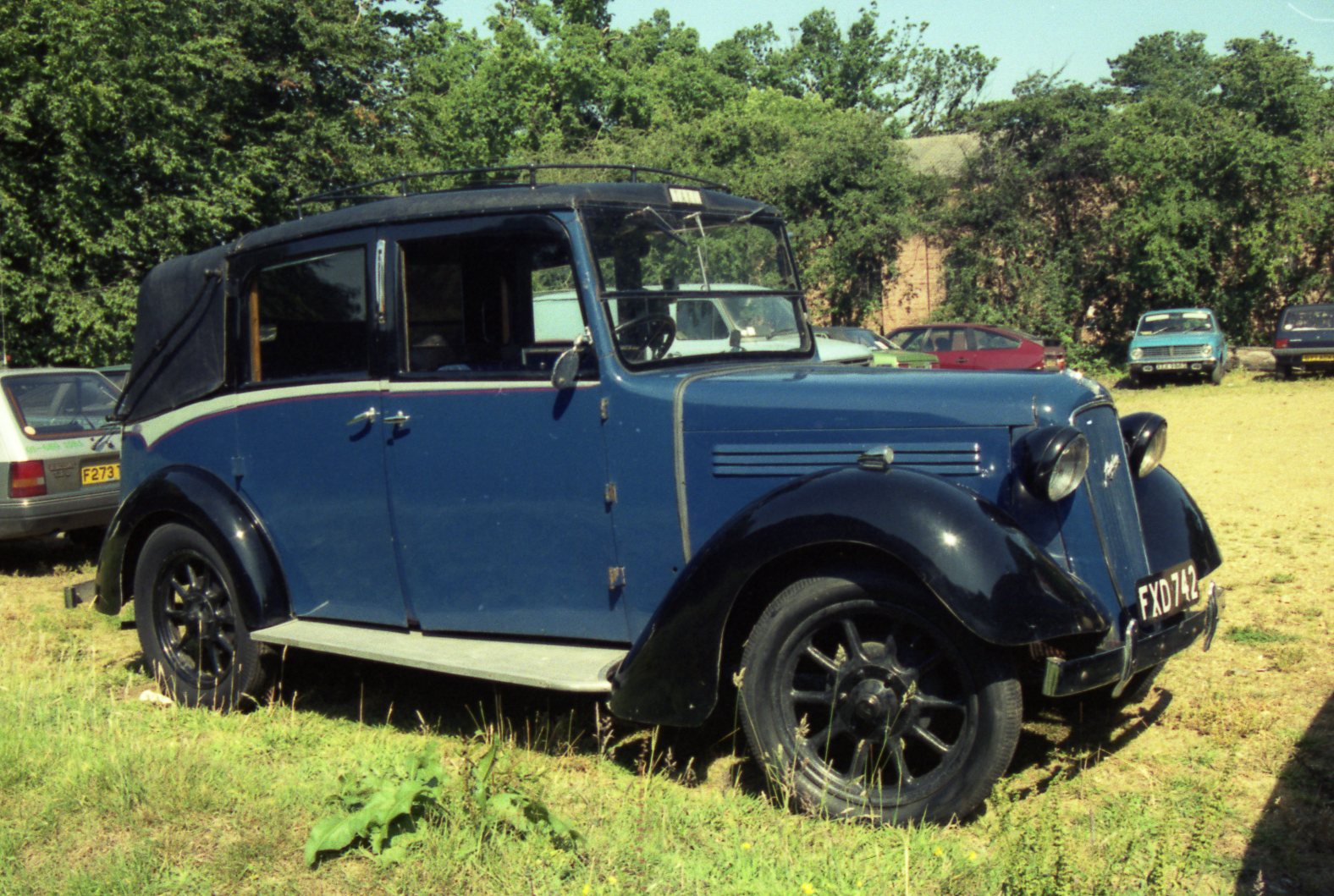 The DVLA database records that this vehicle was first registered 18 July 1939.Googling reveals that this was the last of the coachbuilt taxi designs, succeeding the LL and known to cabbies as the "Flash Lot" on account of its streamlined styling, but not built in great numbers because of the outbreak of Malcolm Bobbitt, Taxi!: The Story of the 'London' Taxicab (Veloce Publishing, 2002) (see Google Books).FXD742 itself has appeared quite often in TV period dramas: Poirot.The Man Who Knew Too Much, Movie, 1956